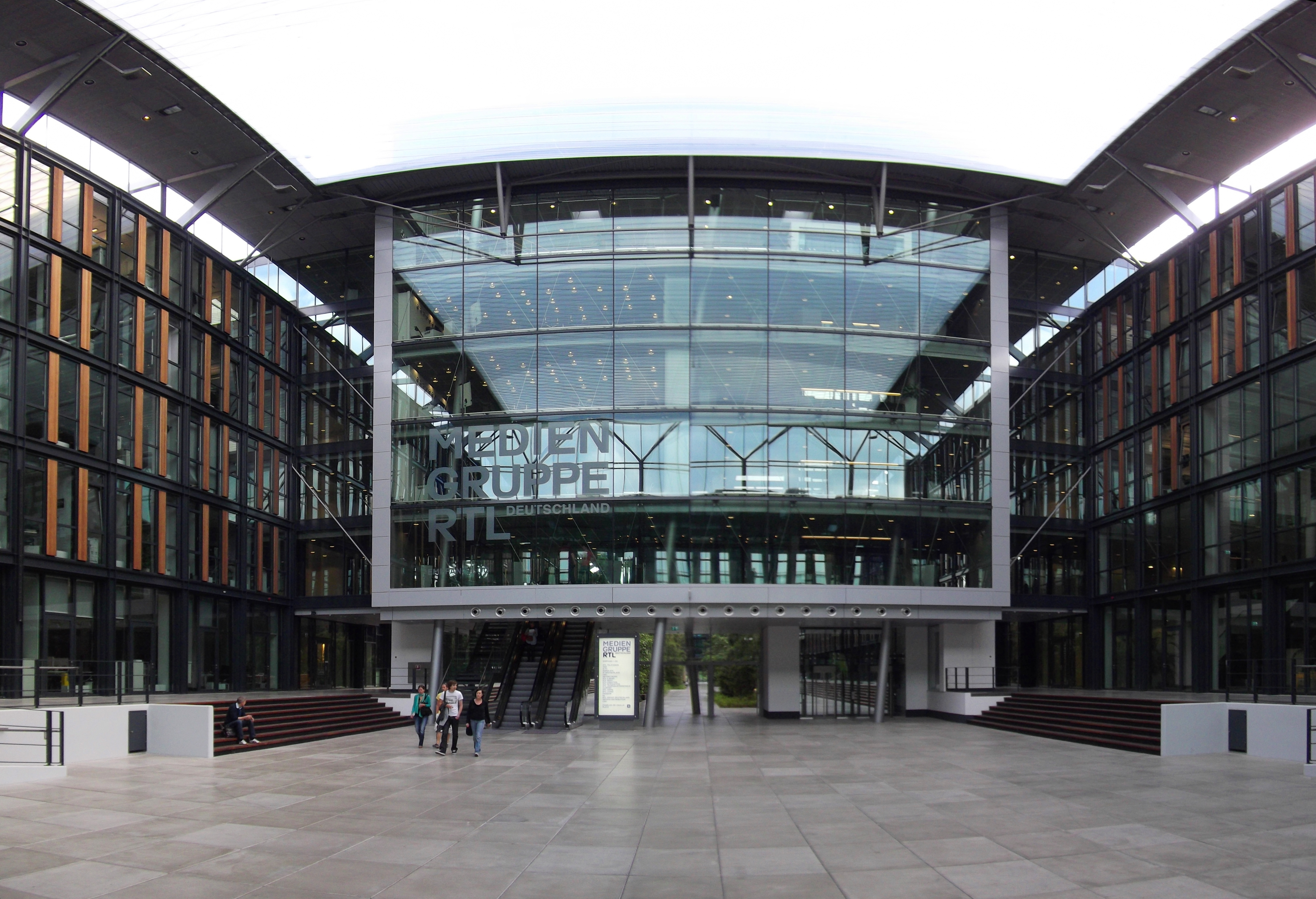 Deutz, Cologne (Köln), Germany: Mediengruppe RTL Deutschland